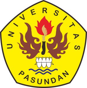 Universitas Pasundan